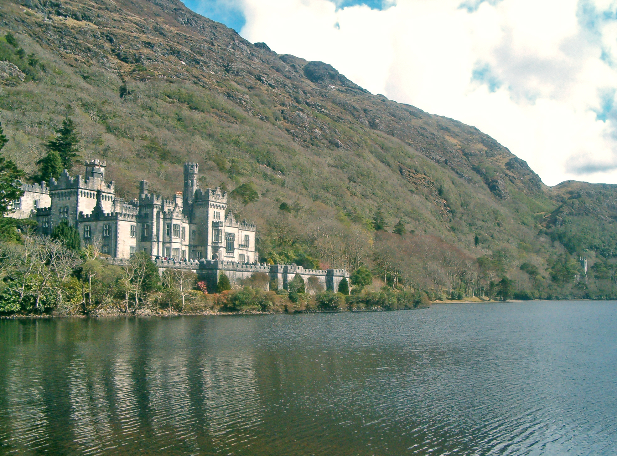 Kylemore Abbey, County Galway, Ireland.